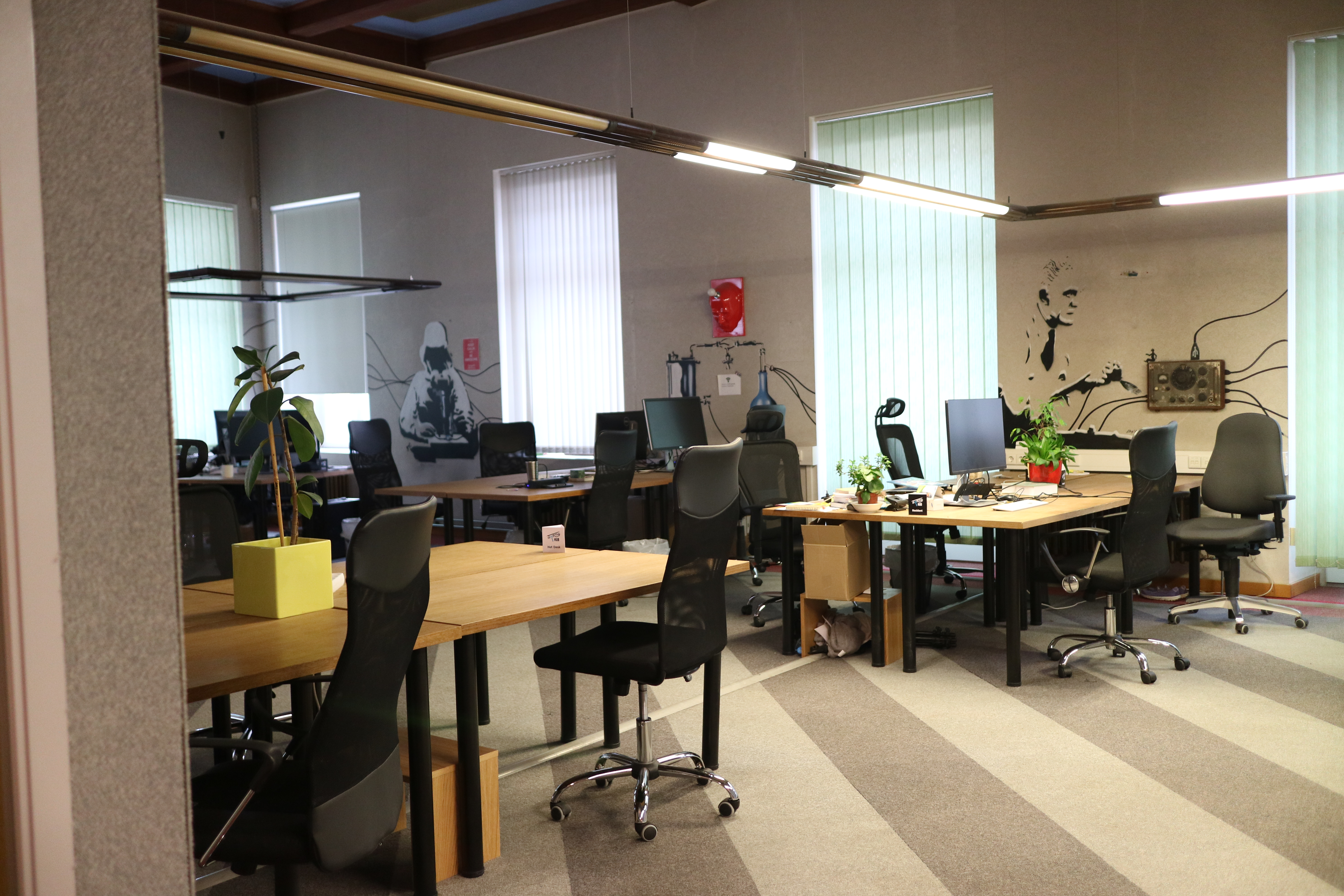 sTARTUp HUB coworking area